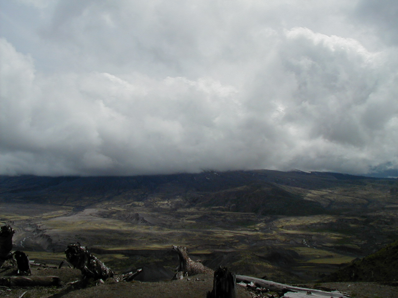 View to the Mount St. Helens. It is covered in clouds most of the time.